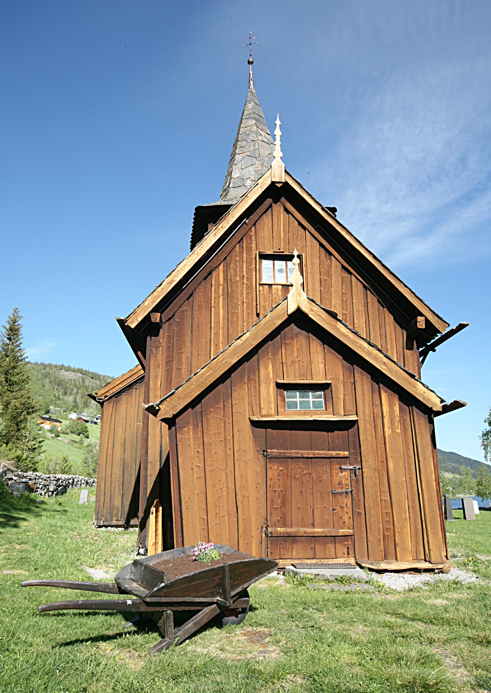 The church Hol gamle kirke in Hallingdal